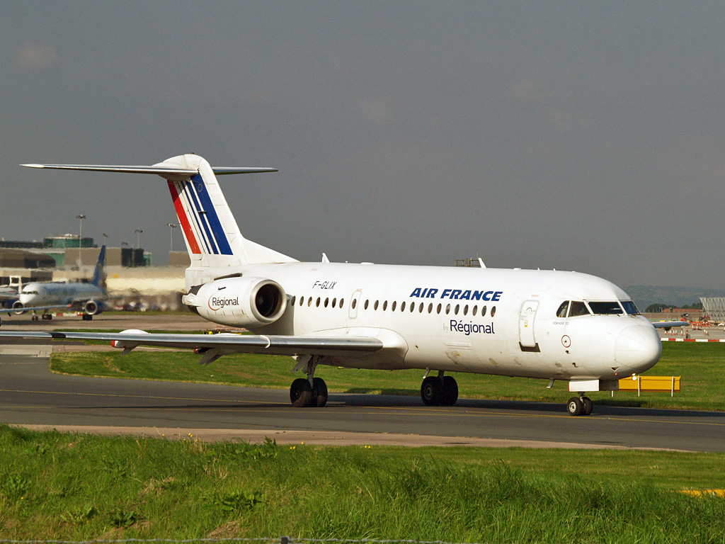 Régional Airlines (leased from DBEL) (formerly Air Littoral) F-GLIX, a Fokker F28-0070 taxies to take off from runway 05 left at Manchester Airport with flight AFR2569 to Paris-Charles de Gaulle. Monday 28th July 2008